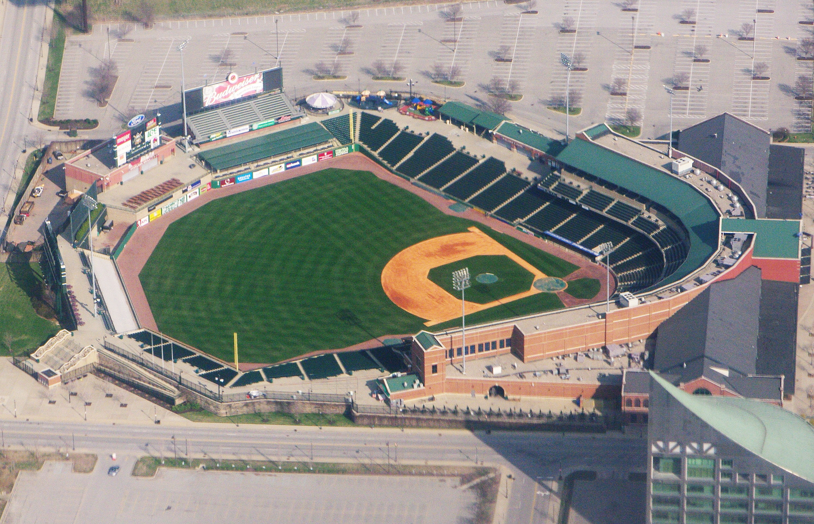 Home of the Louisville Bats, AAA minor league affiliate of the Cincinnati Reds. Built in 2000 and holds 13,000 fans.